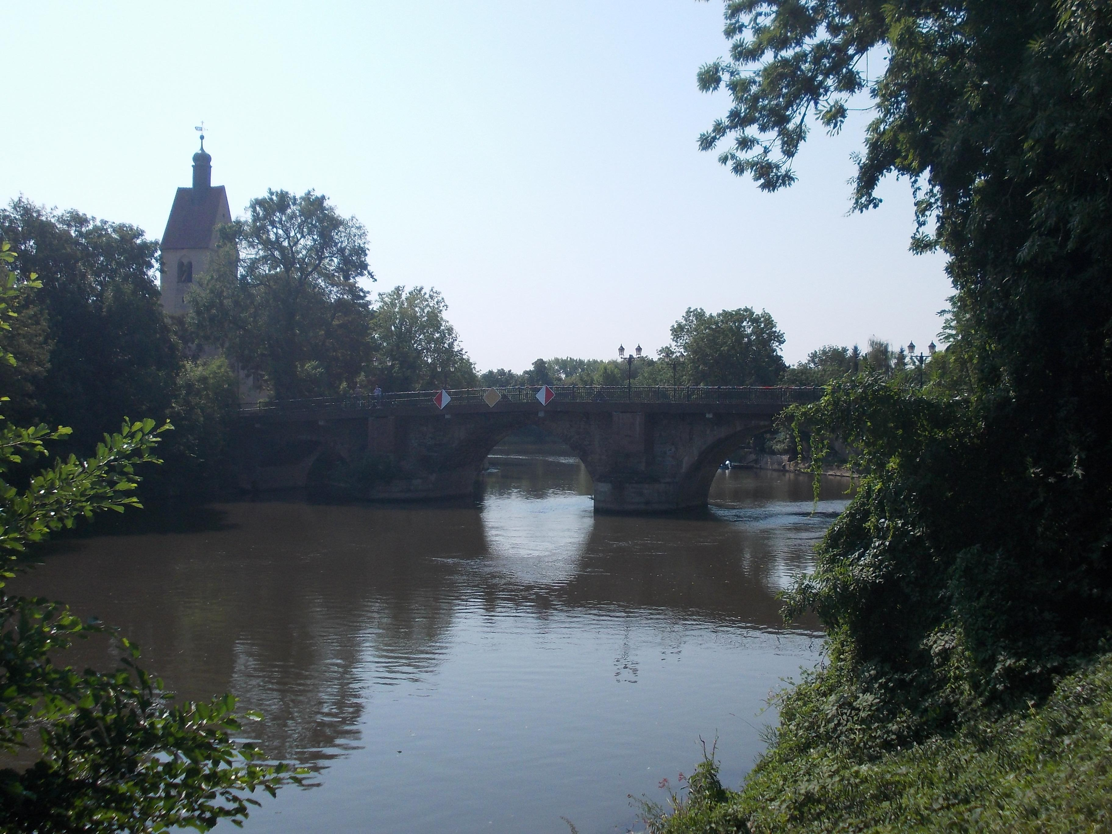 Neumarkt Bridge in Merseburg (district: Saalekreis, Saxony-Anhalt)